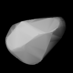 3D convex shape model of 1459 Magnya, computed using light curve inversion techniques. J. Hanuš, J. Ďurech, M. Brož, B. D. Warner (June 2011). "A study of asteroid pole-latitude distribution based on an extended set of shape models derived by the lightcurve inversion method". Astronomy and Astrophysics 530: A134. ISSN 0004-6361. arXiv